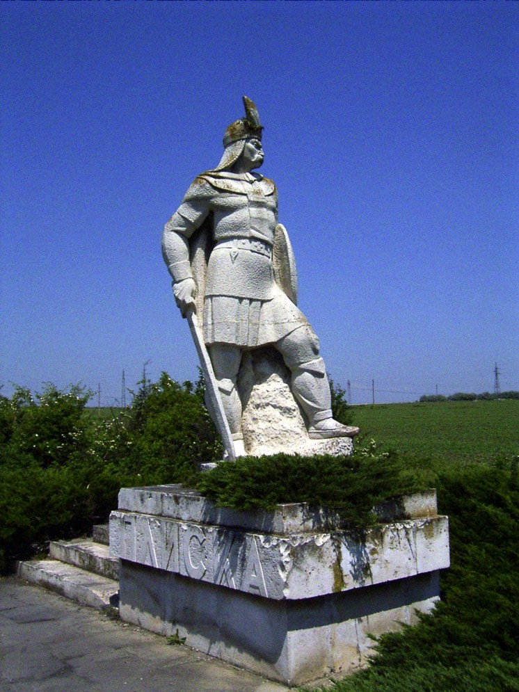 Statue of Asparukh, Khan of Bulgaria (Reign 679–700)